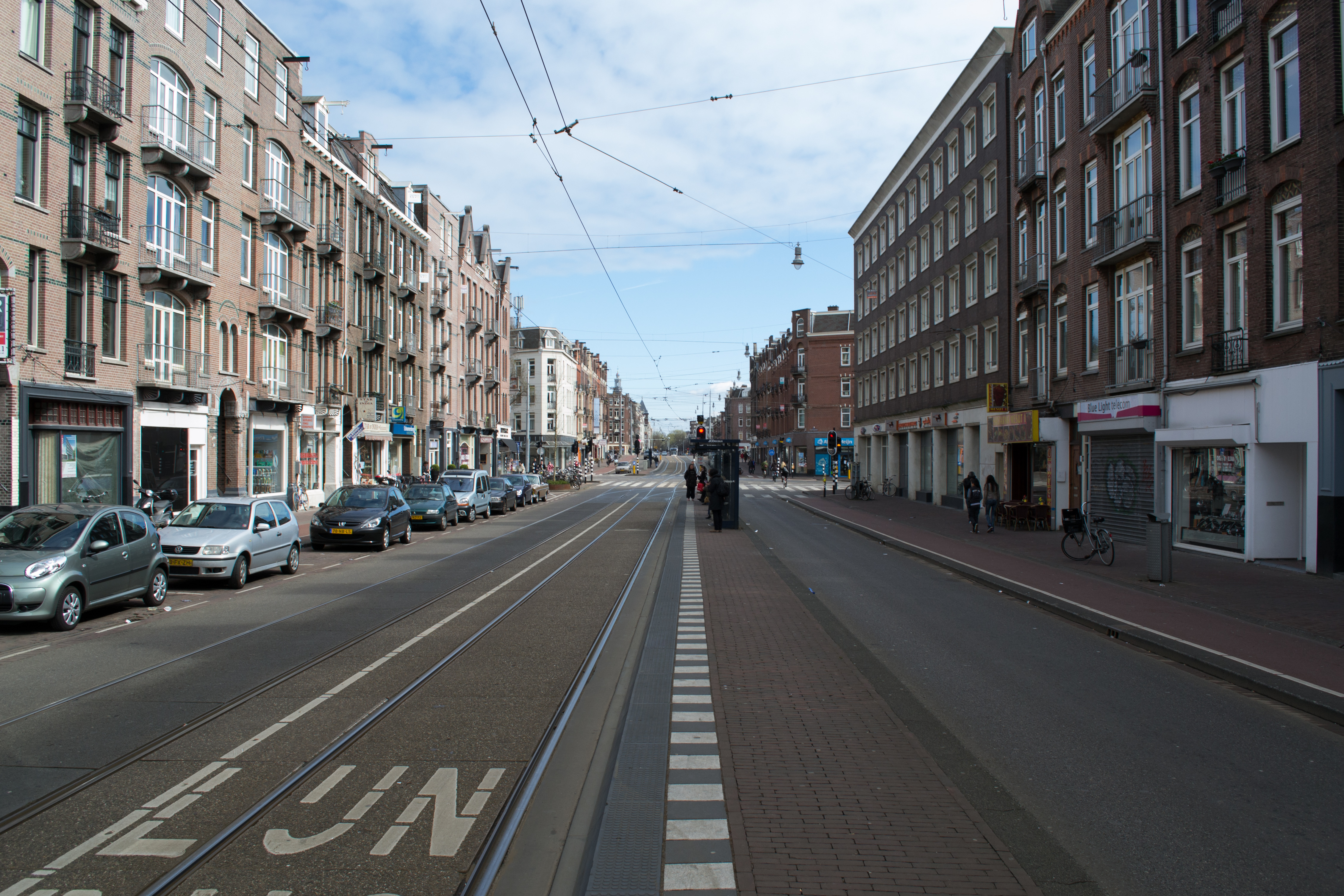 De Clerqstraat, Amsterdam